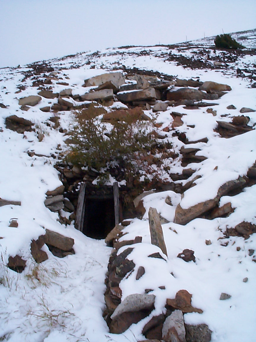 A mine adit at Butugycheg tin mine – a gulag prison camp until 1955 which finally closed in 1958. Taken by self (Oxonhutch| (talk|)) 5 September 2004